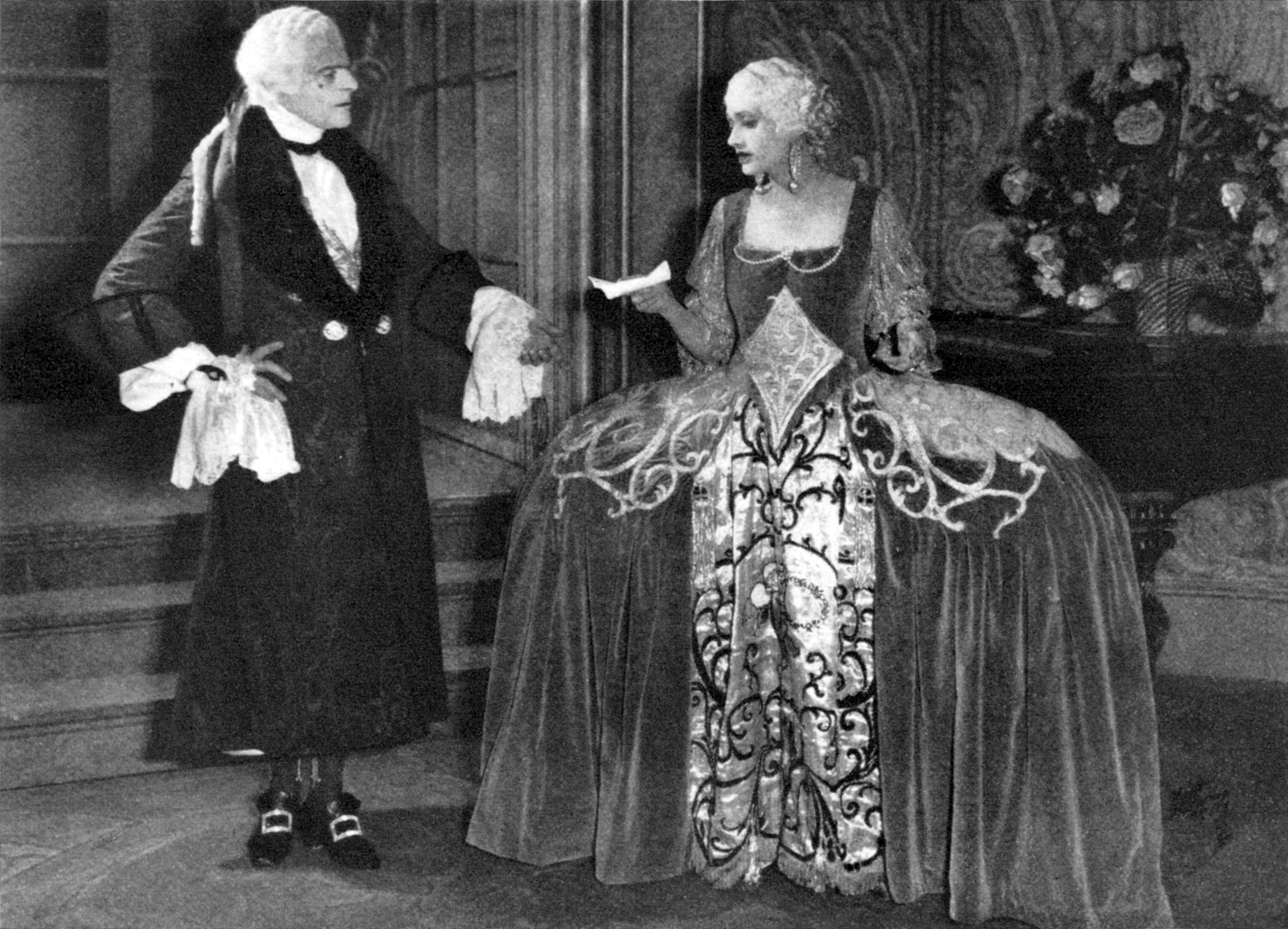 Photograph of Lowell Sherman and Katharine Cornell in the Broadway production of Casanova